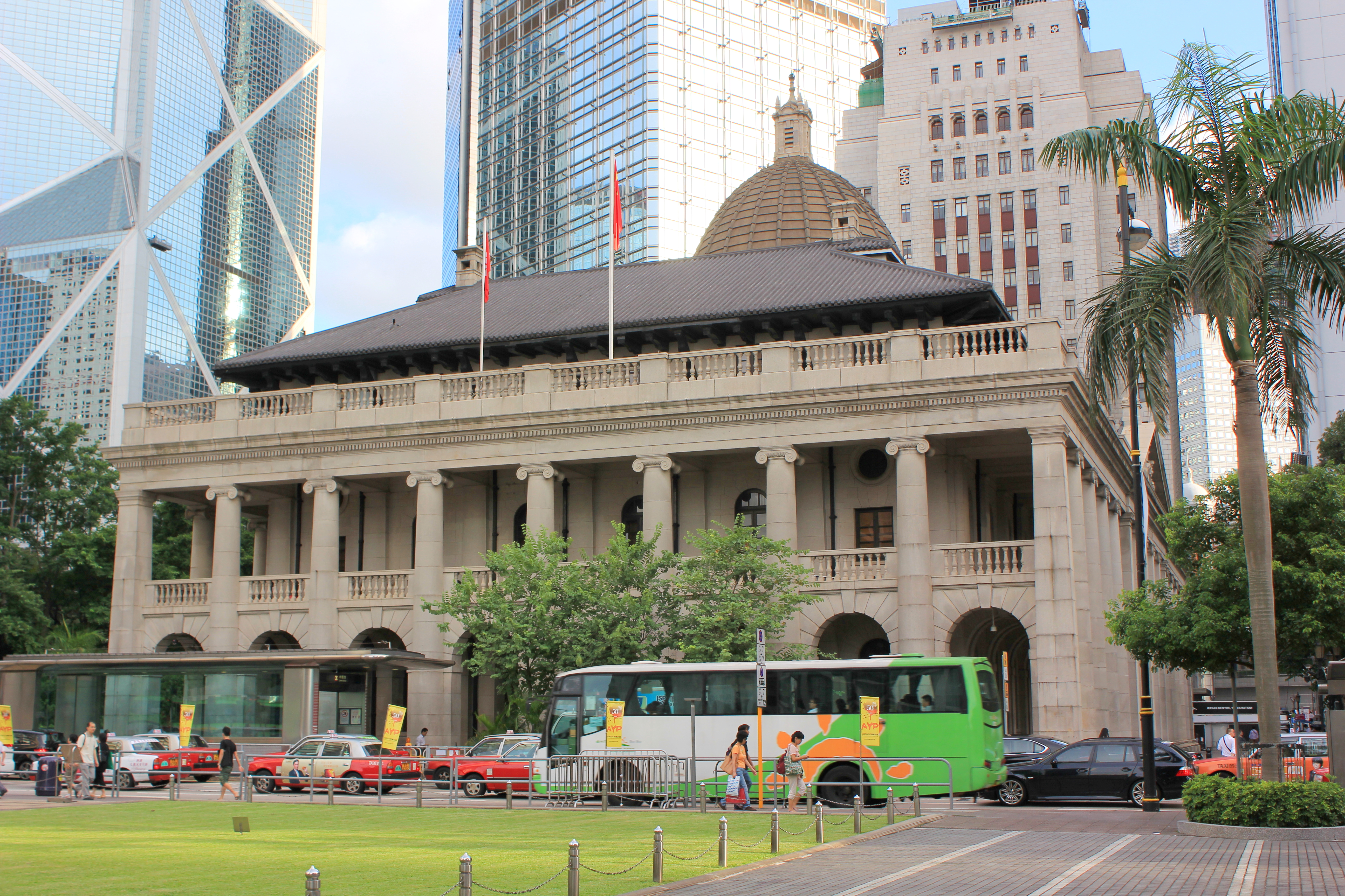 The Legislative Council Building, located in Central, Hong Kong.